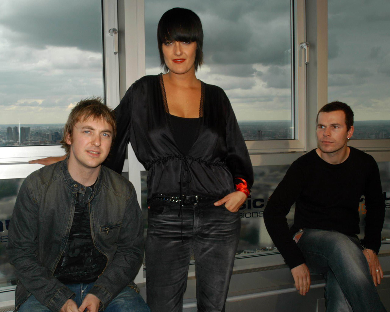 Kosheen UK electronic group, taken at the BT Tower.